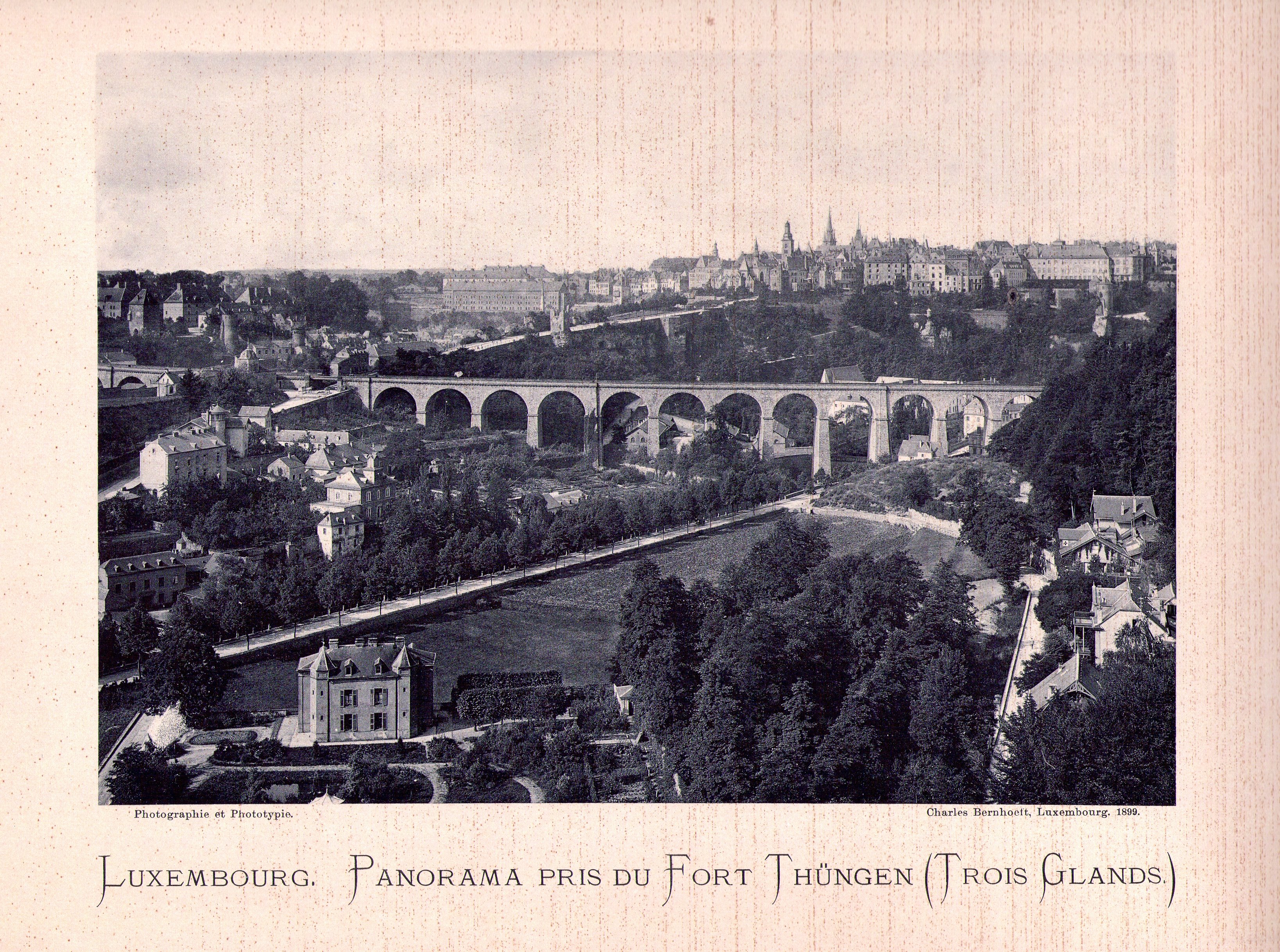 Luxembourg: Panoramic view from Fort Thüngen